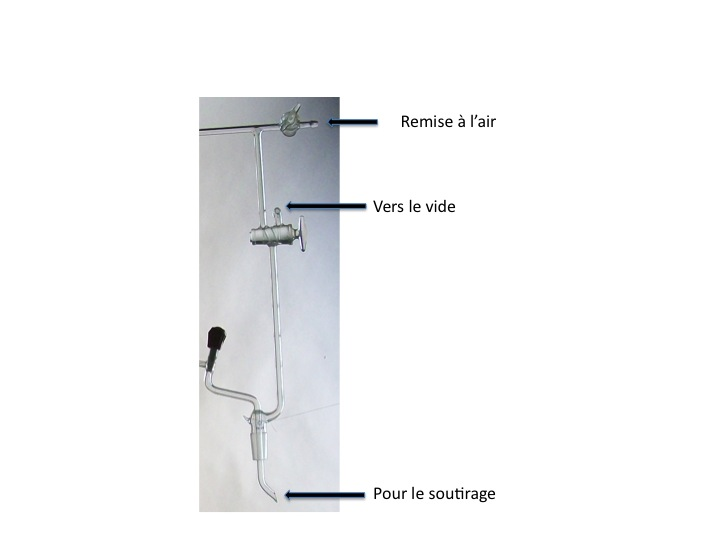 Vacuum part of a spinning band column in use at the ENS Lyon (France)